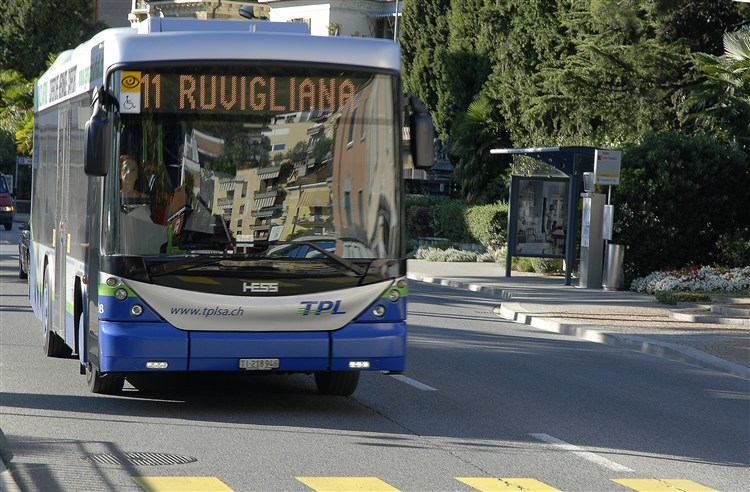 Suburban bus of the Trasporti Pubblici Luganesi